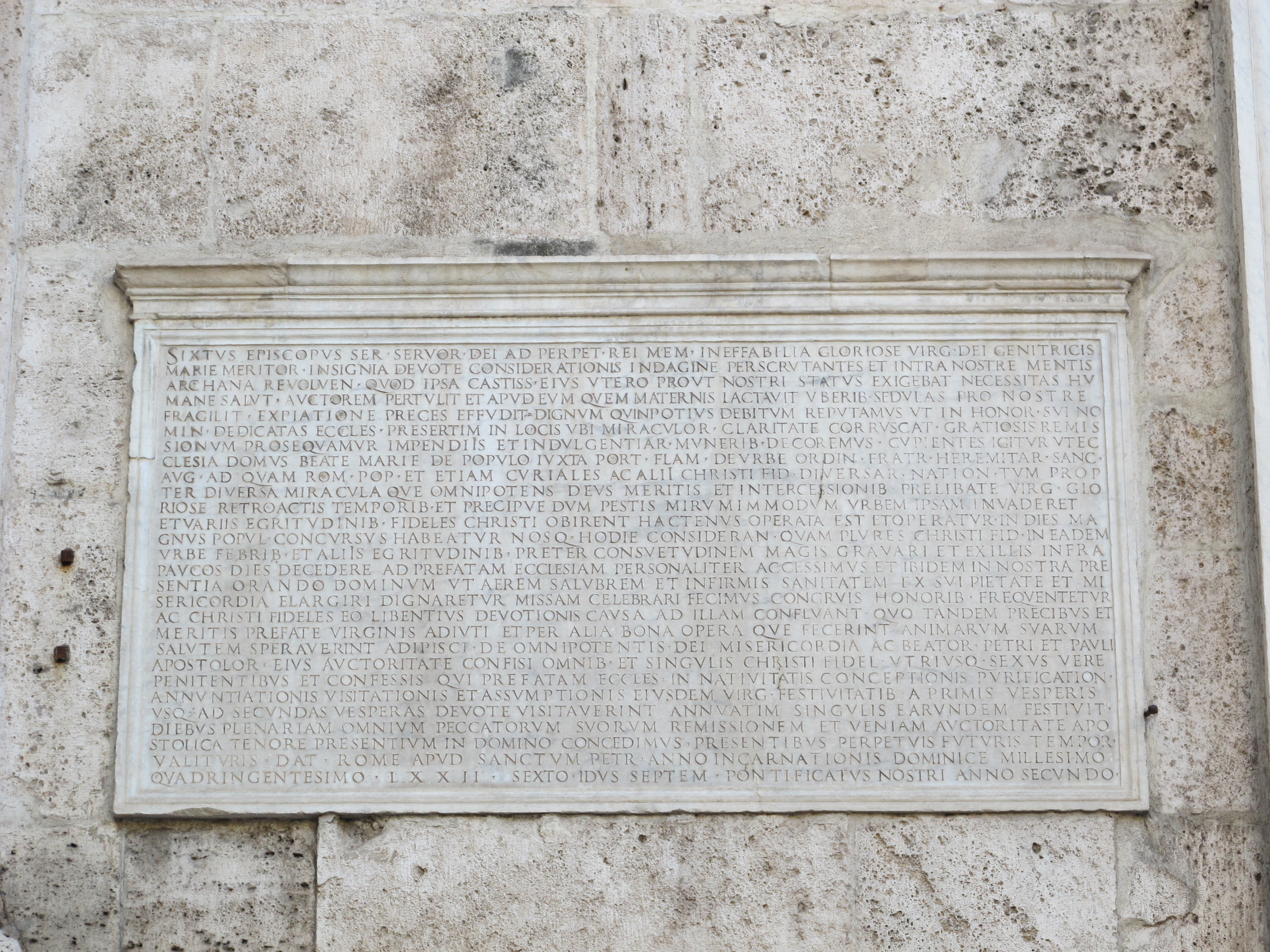 Inscription on the facade of the Basilica of Santa Maria del Popolo, the bull of Pope Sixtus IV, dated on 7 September 1472, which begins with the words Ineffabilia Gloriosae Virginis Dei Genitricis, through which he granted plenary indulgence and remission of all sins to the faithful of both sexes who attend this church on the feastdays of the Virgin.